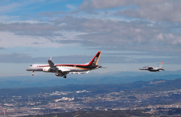 The MRJ on its first flight, accompanied by a Kawasaki T-4